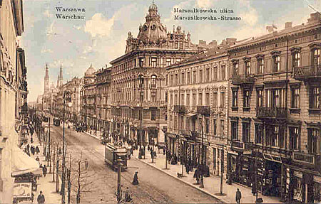 Marszałkowska Street in Warsaw about 1912